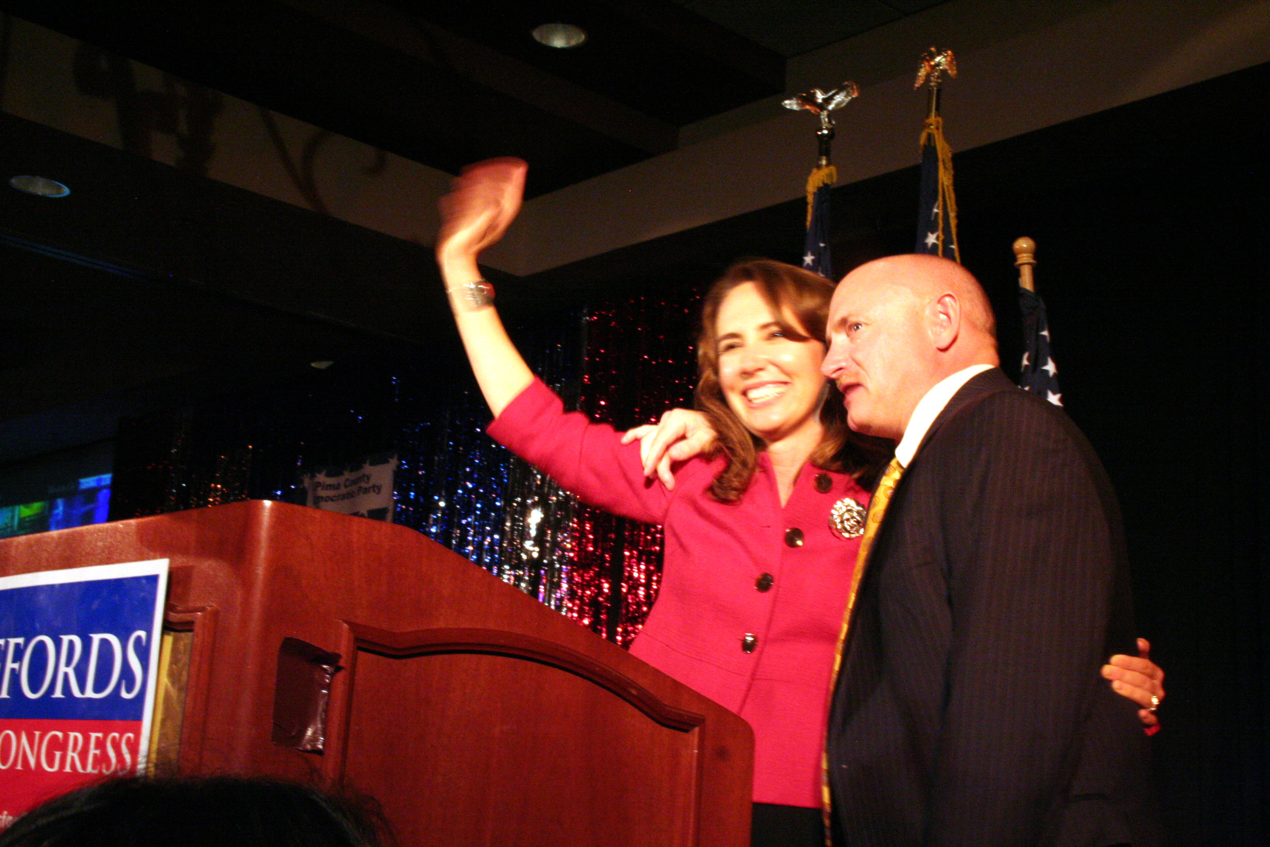 Original caption: "Rep. Gabrielle Giffords, congresswoman from Arizona's 8th district, and husband U.S. Navy Capt. Mark E. Kelly, an astronaut, wave to supporters together on the campaign trail. Giffords says being married to a Navy officer means the two see much less of each other."